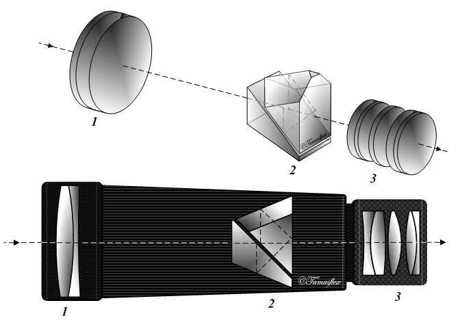 Monocular telescope optical design.